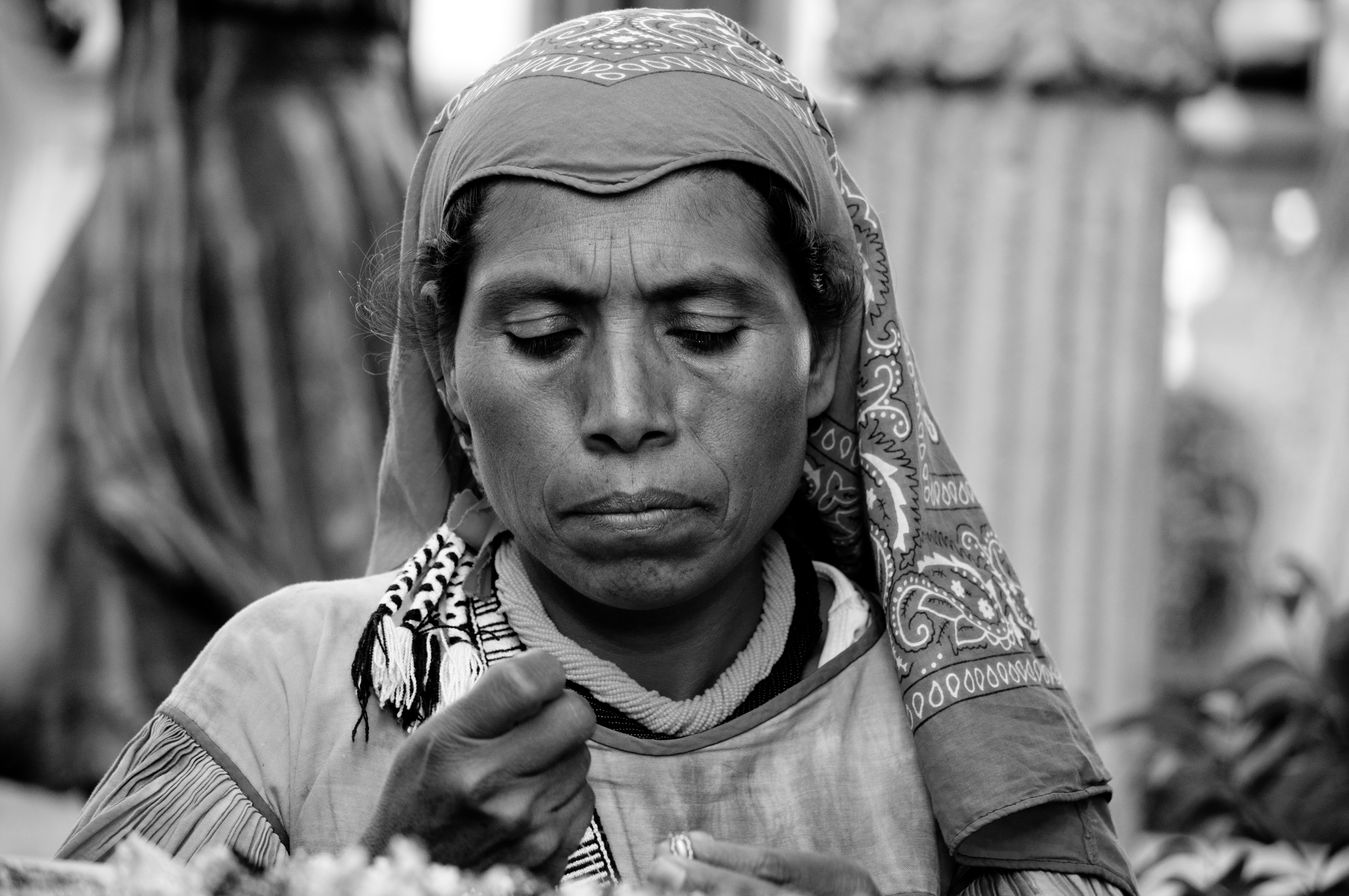 Huichol woman working